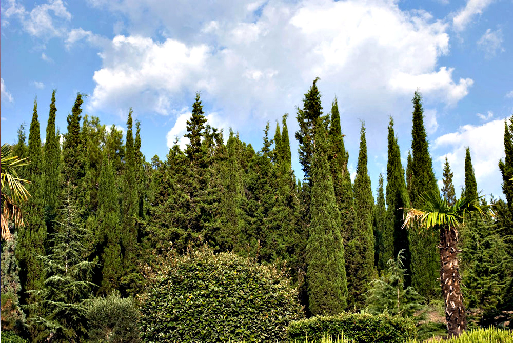 Juniperus. Kanaka. Crimea. Ukraine.